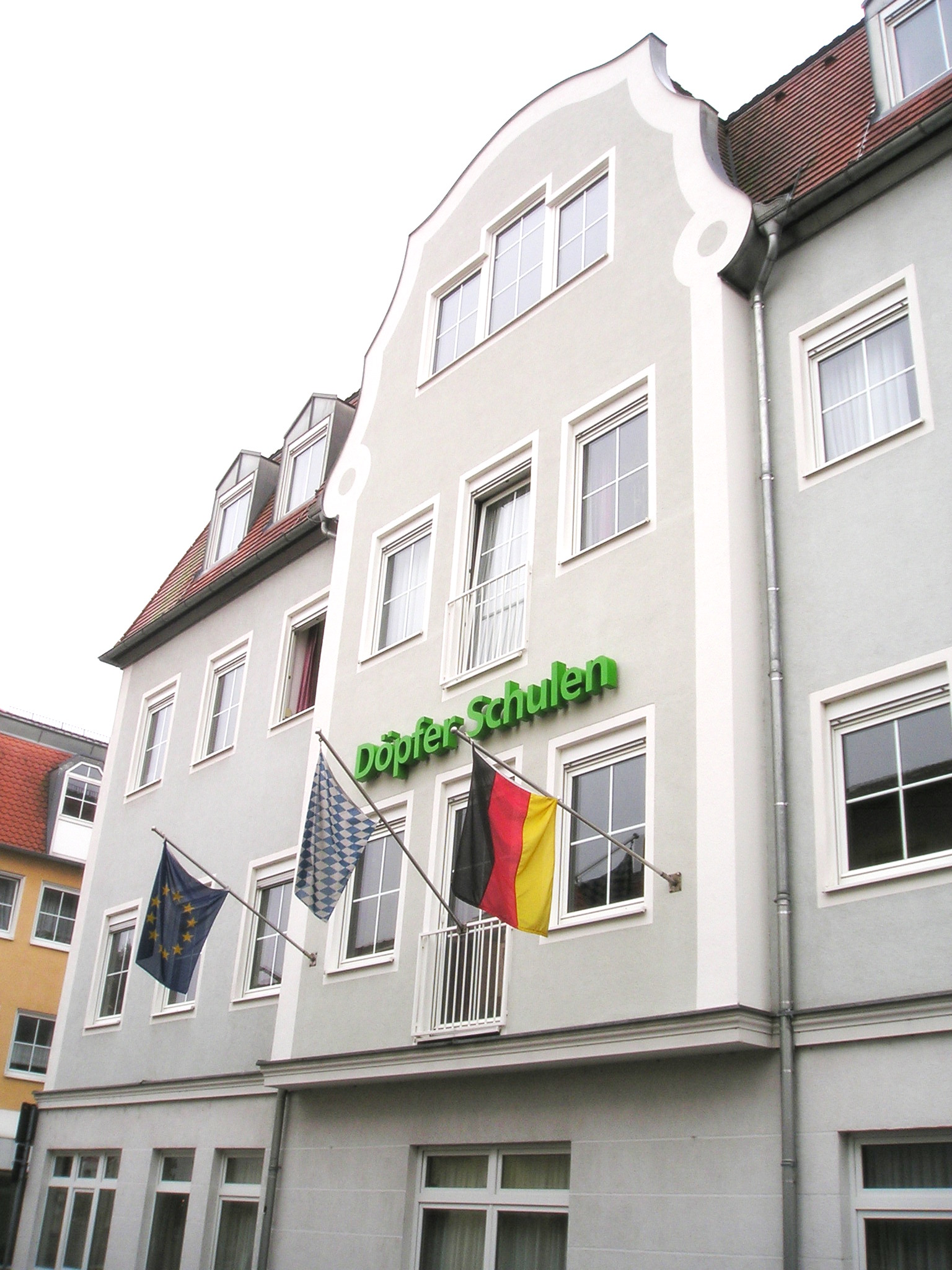 schoolbuilding in Schwandorf